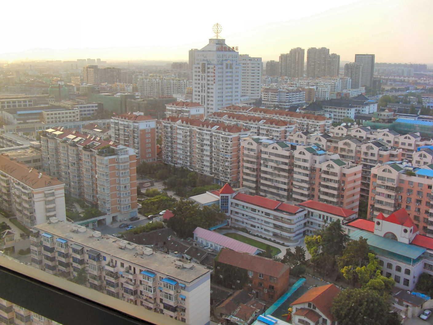 Changzhou